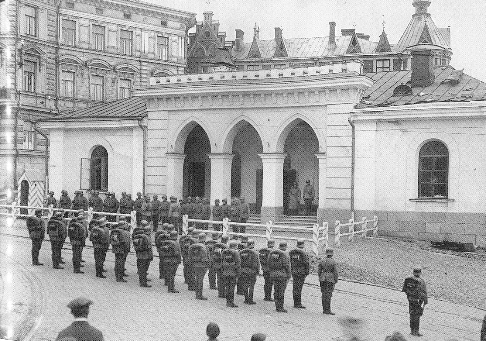 Finnish troops in a guard mounting ceremony by the Vyborg Main Guard, 1927.